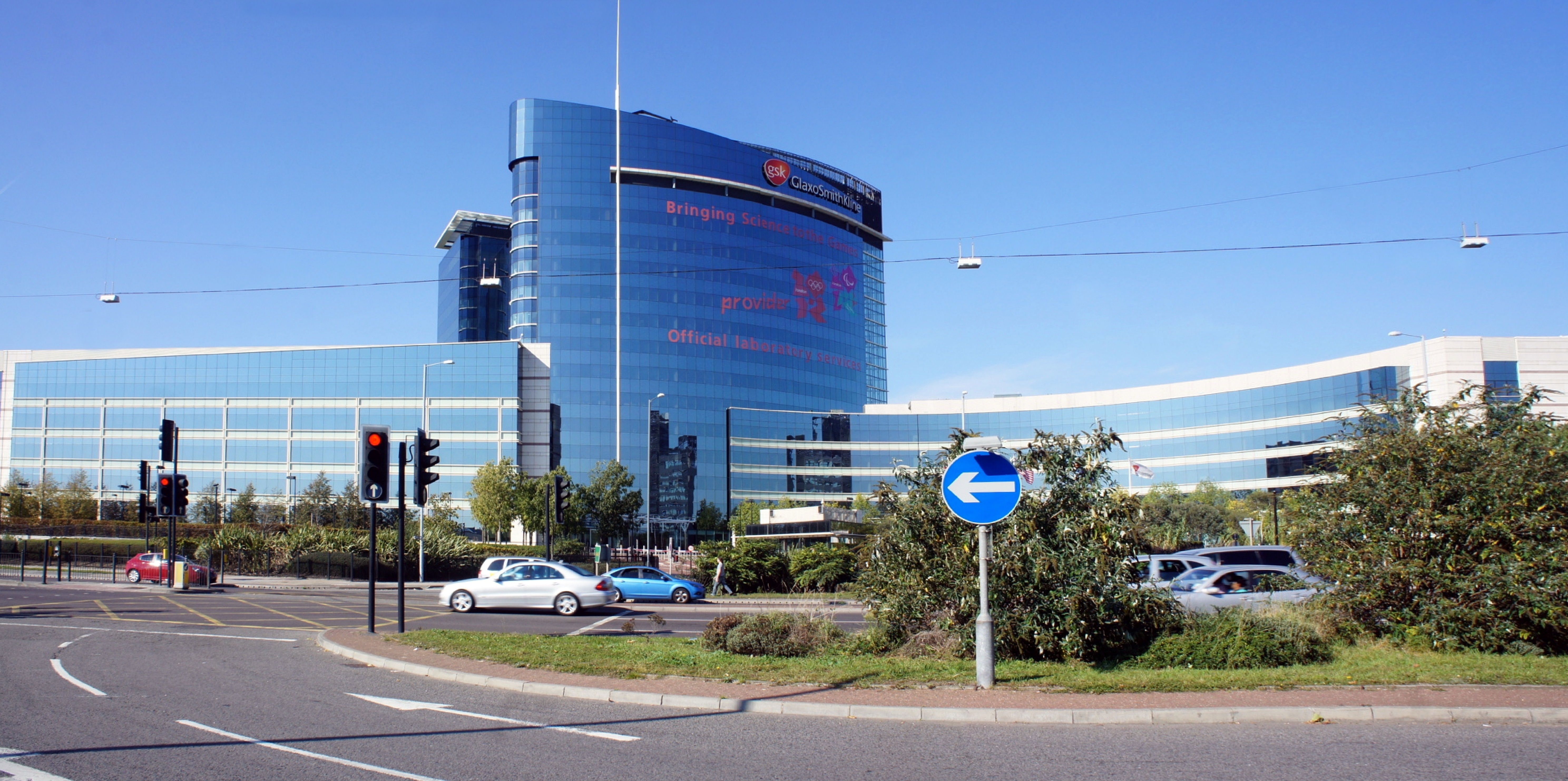 GlaxoSmithKline headquaters in Brentford, London, England.